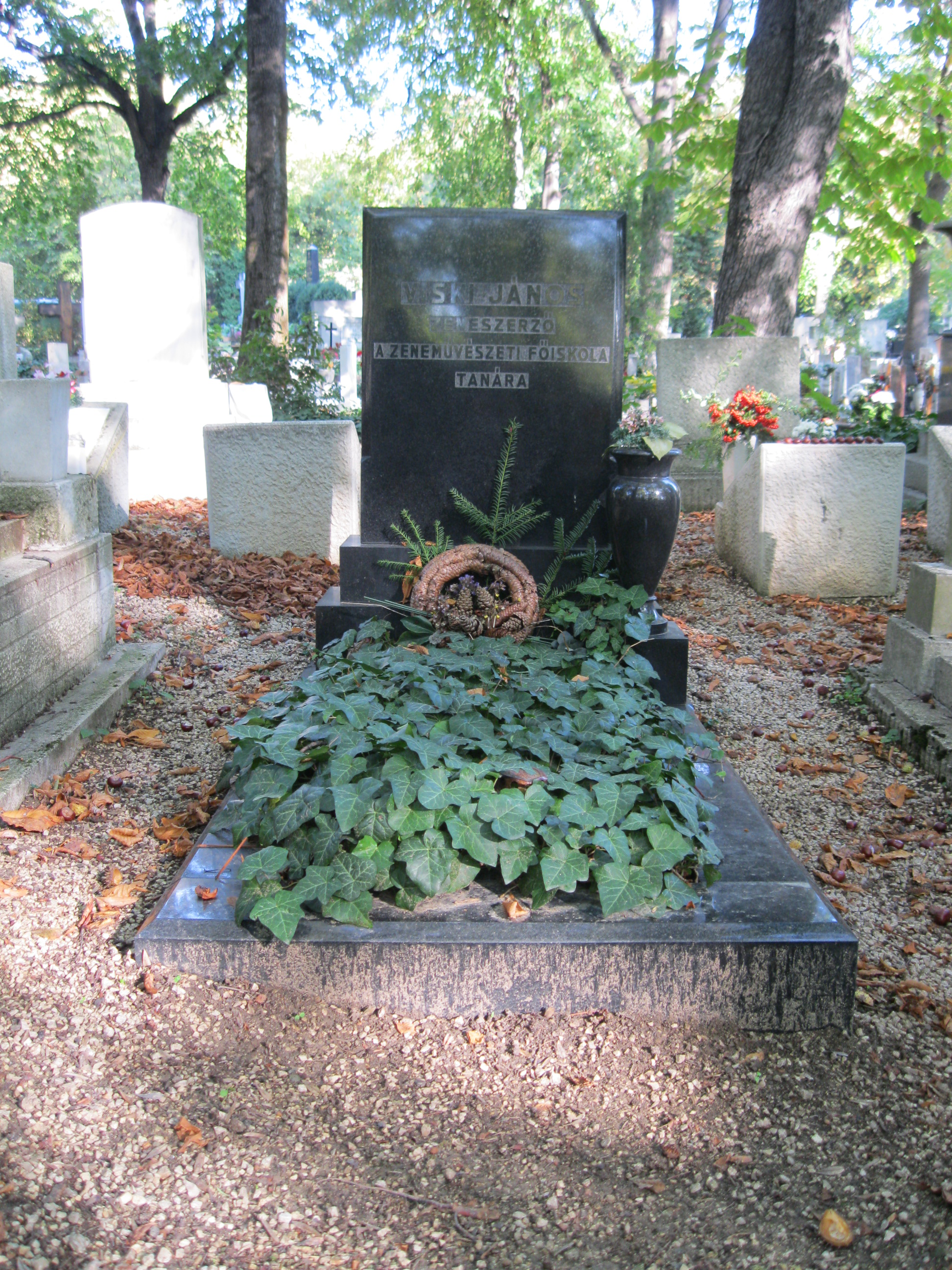 Tomb of János Viski in Farkasréti Cemetery [1/1-1-16]